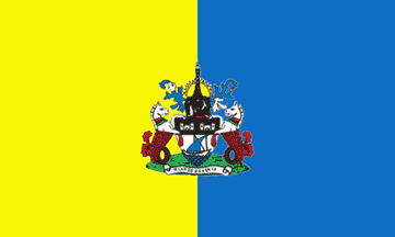 Flag of Mombasa (Kenya)Kiswahili: Bendera ya Mombasa (Kenya)